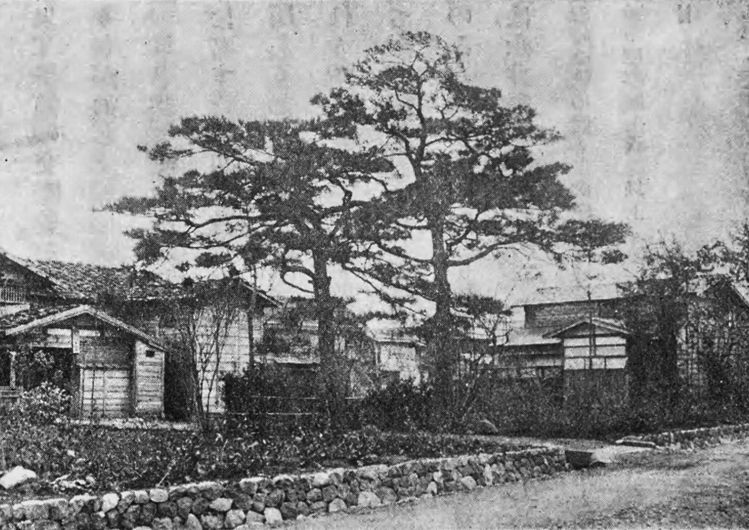 Two pine trees that were in the ruins of Kawai Tsuginosuke's house.